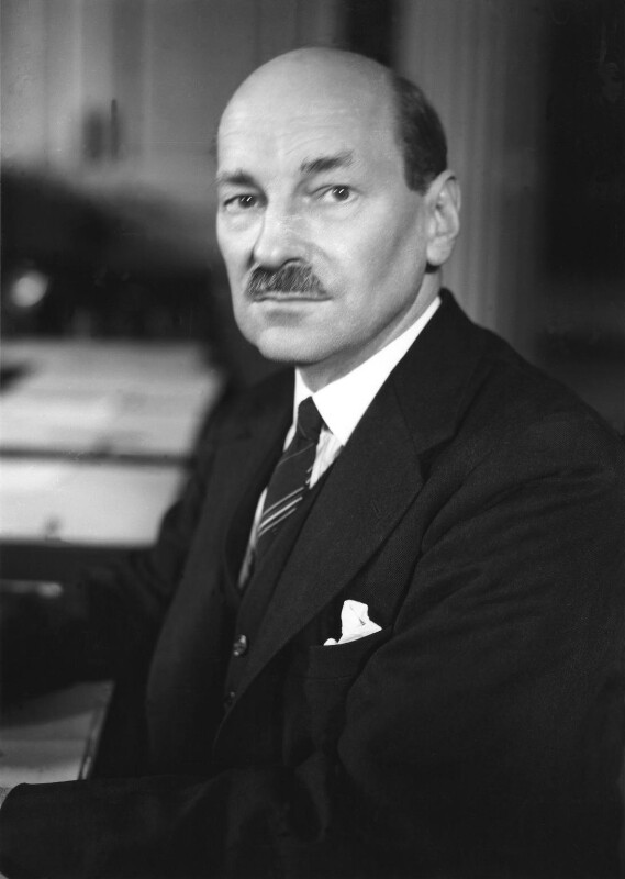 half-plate film negative